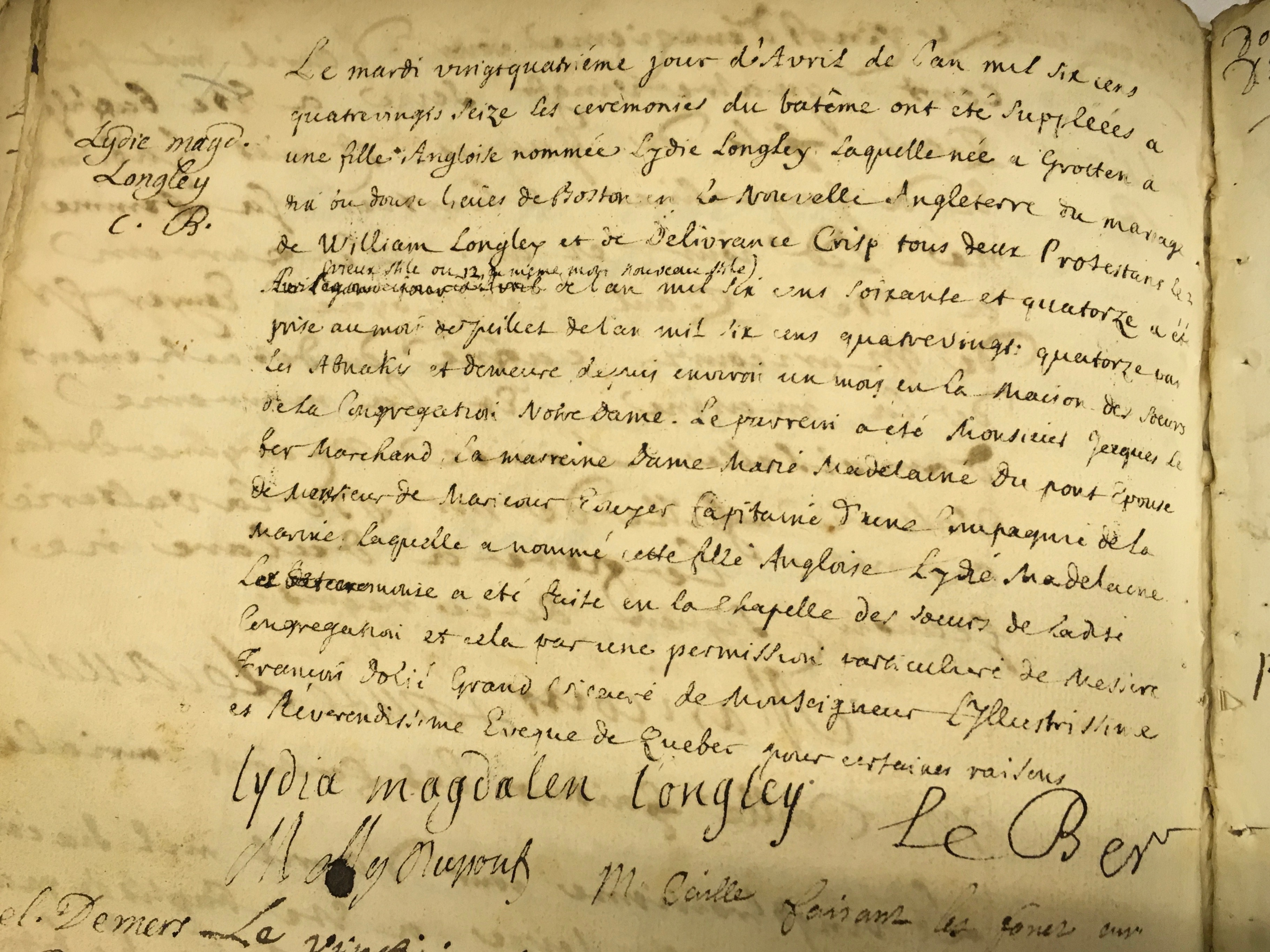 Lydia Longley baptism record kept in the archives of La Fabrique Notre-Dame de Montréal